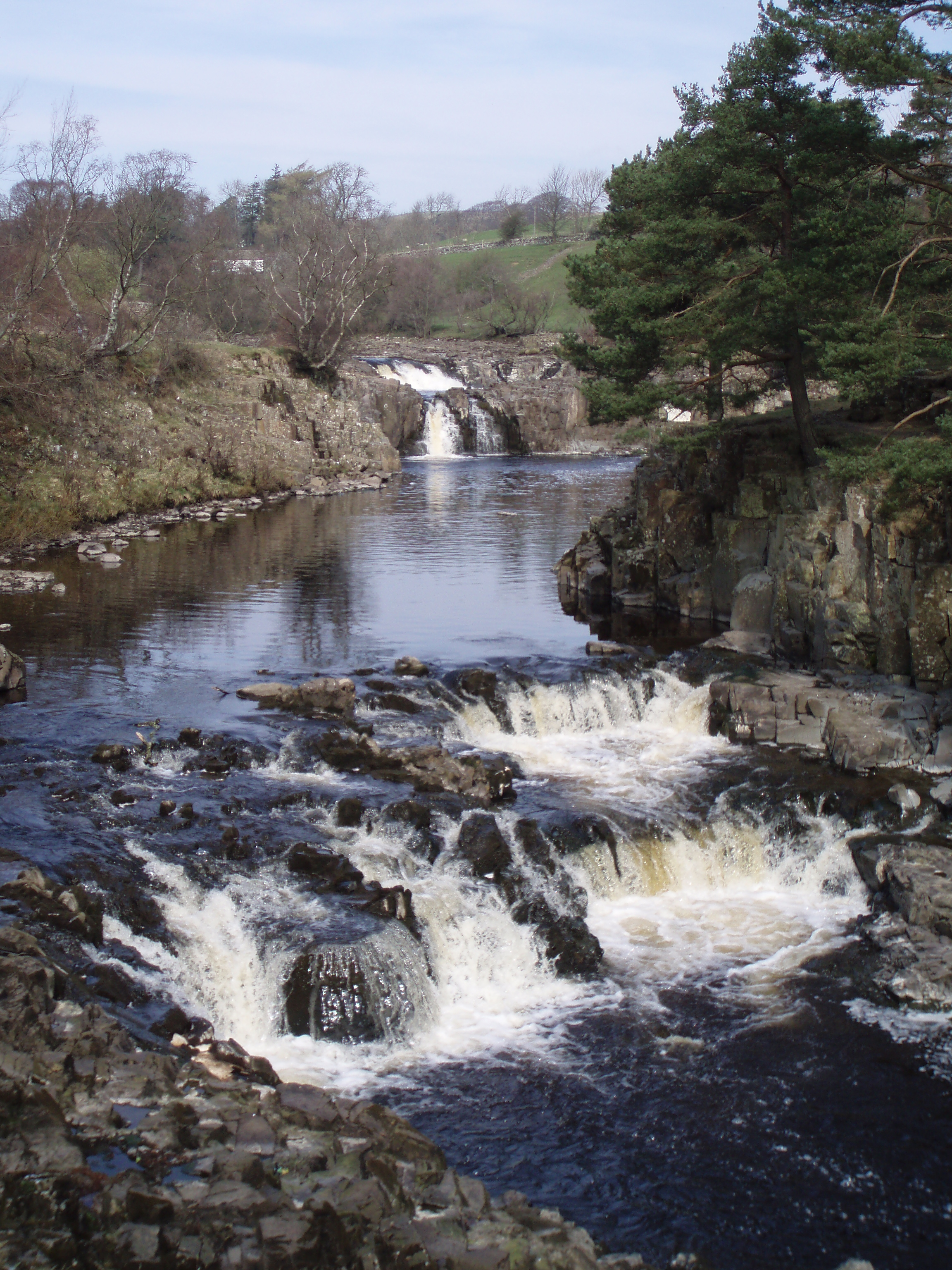 Low Force, River Tees, County Durham, England.